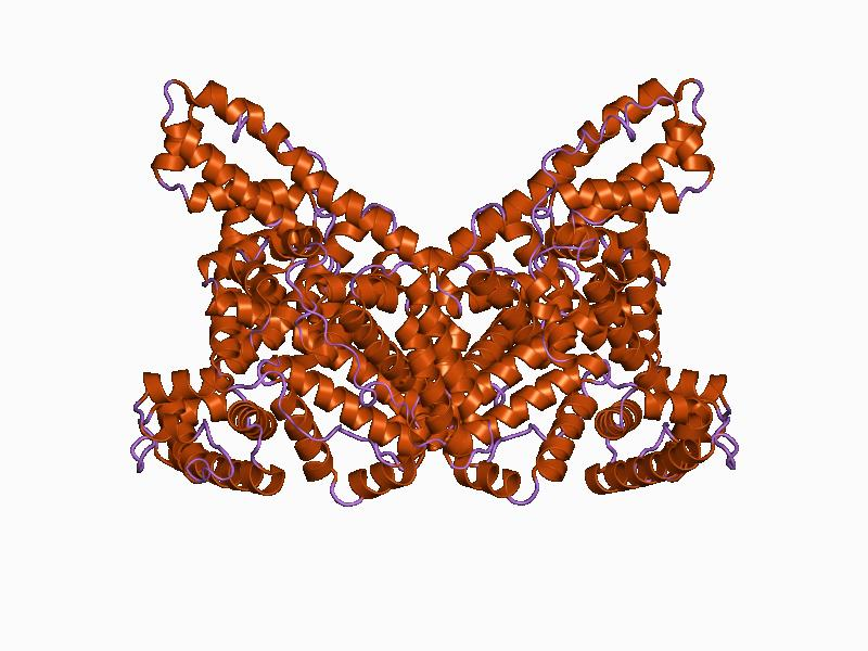 Cartoon representation of the molecular structure of protein registered with 1bm0 code.